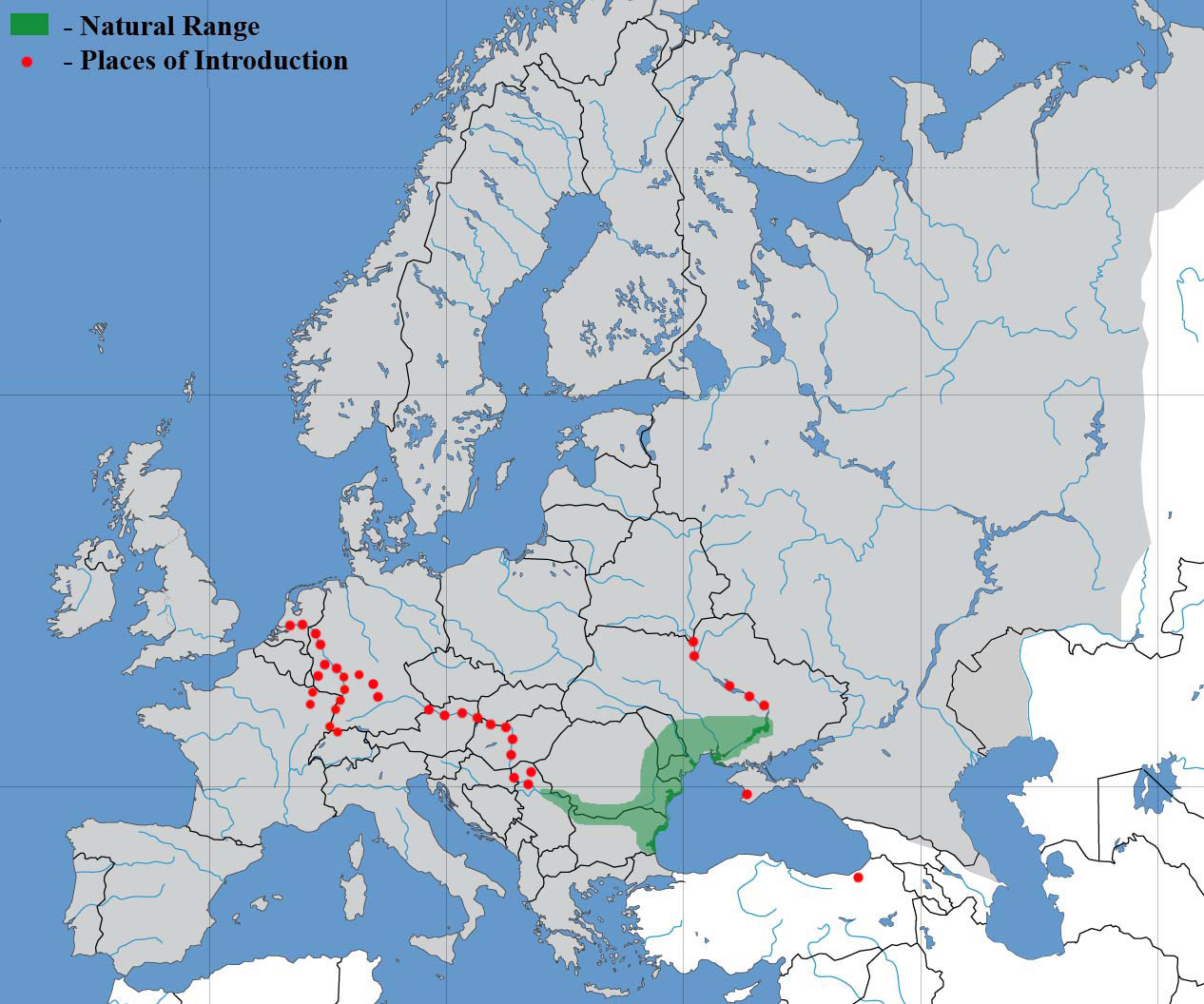 The range of the bighead goby (Ponticola kessleri)